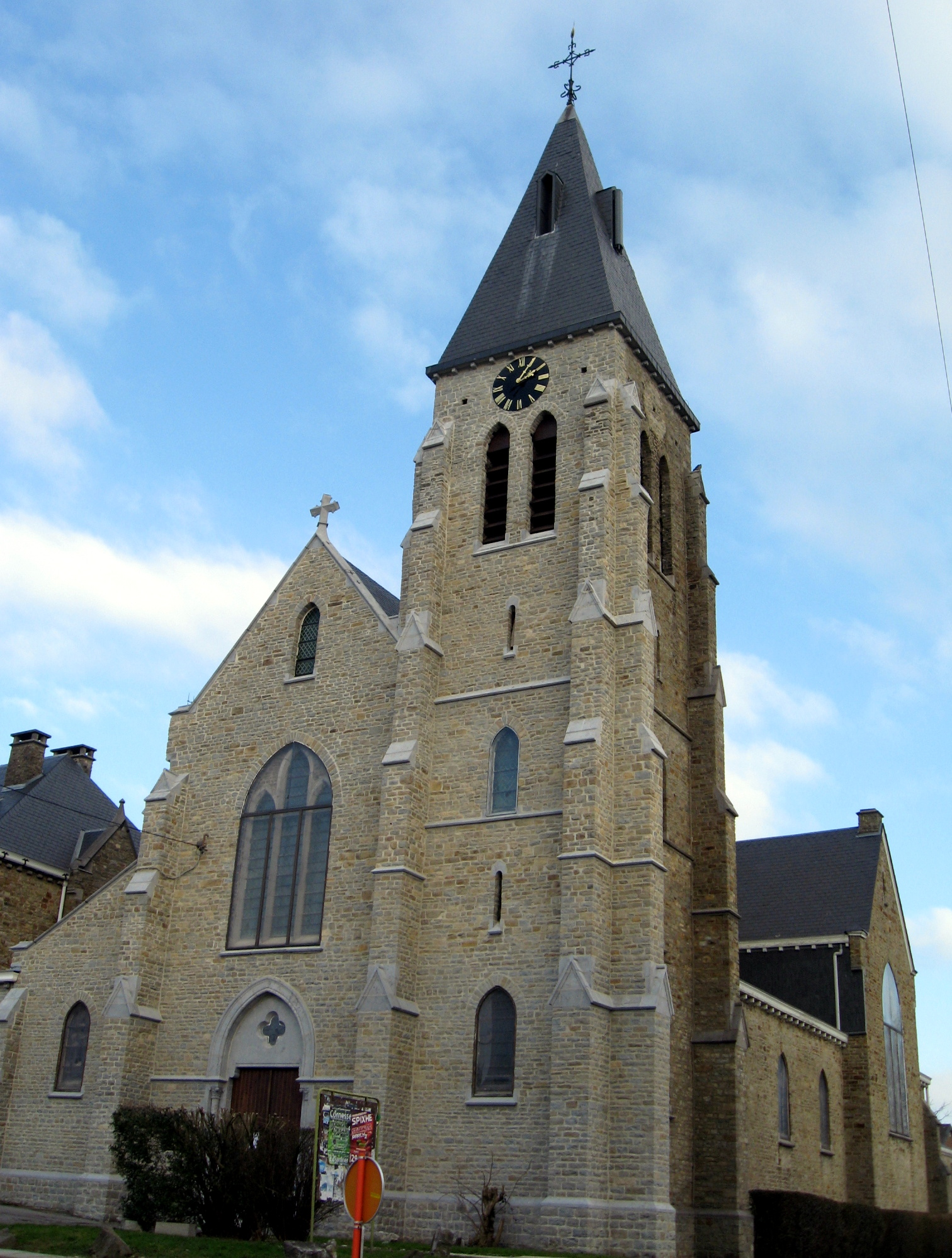 Church of the Assumption of Our Lady in Cornesse, Pepinster, Liège, Belgium